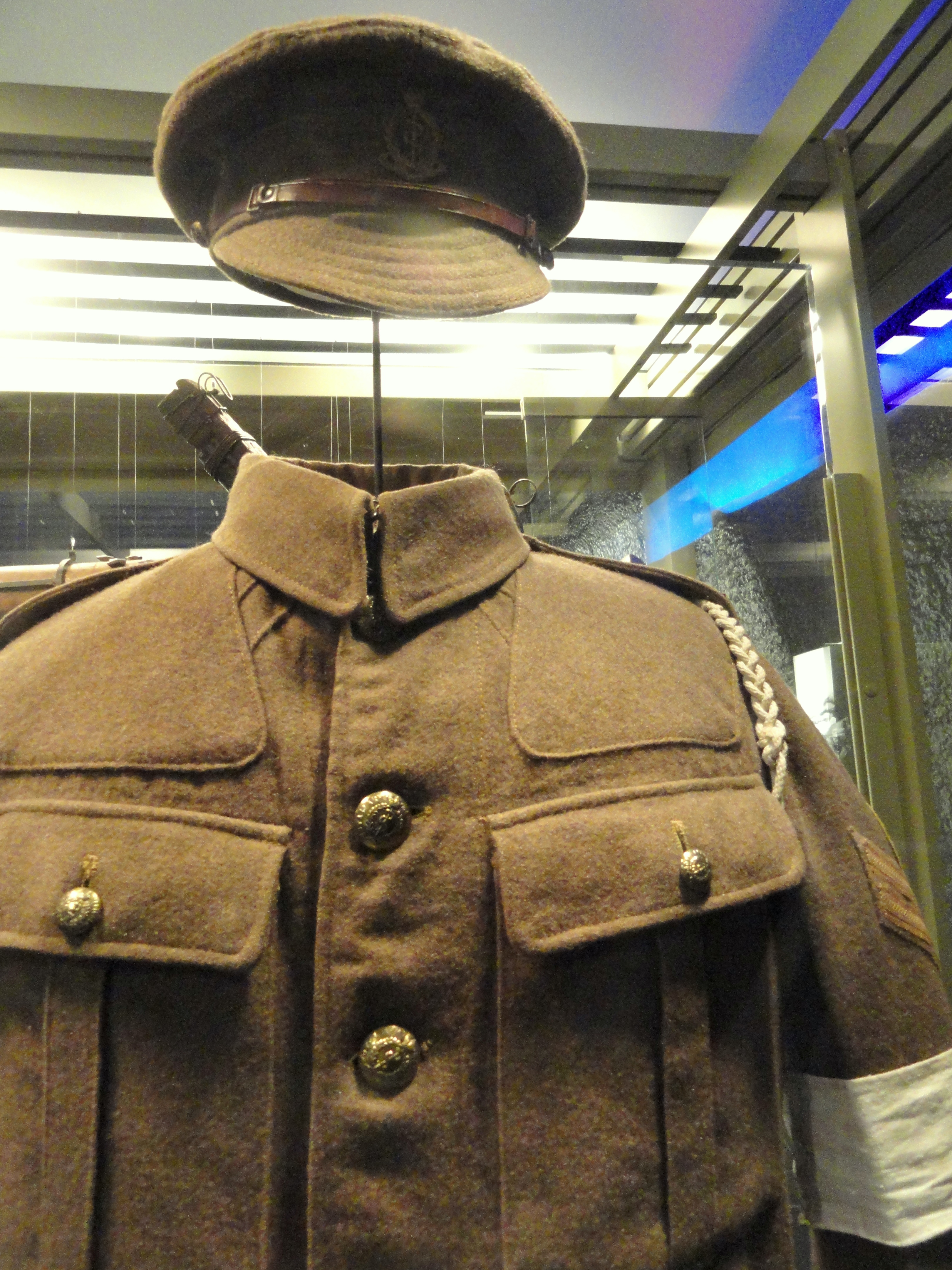 Uniform of the Royal Army Medical Corps, exhibited in the National World War I Museum at the Liberty Memorial, 100 W. 26th Street, Kansas City, Missouri, USA.